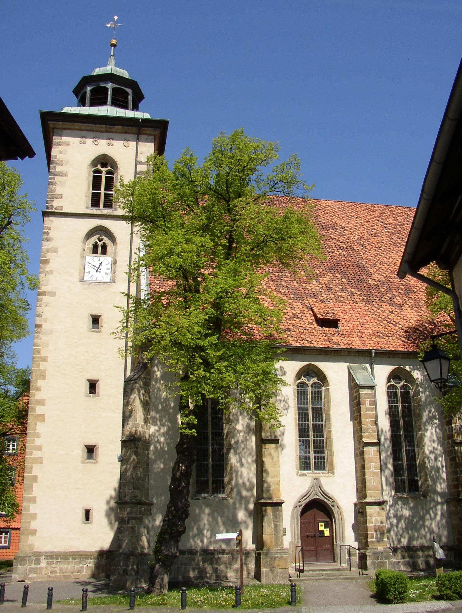 St. Mary's Church in Hornburg in Lower Saxony, Germany